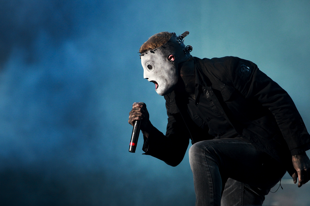 Vocalist Corey Taylor of the heavy metal band Slipknot performing at Optimus Alive Festival in Portugal.